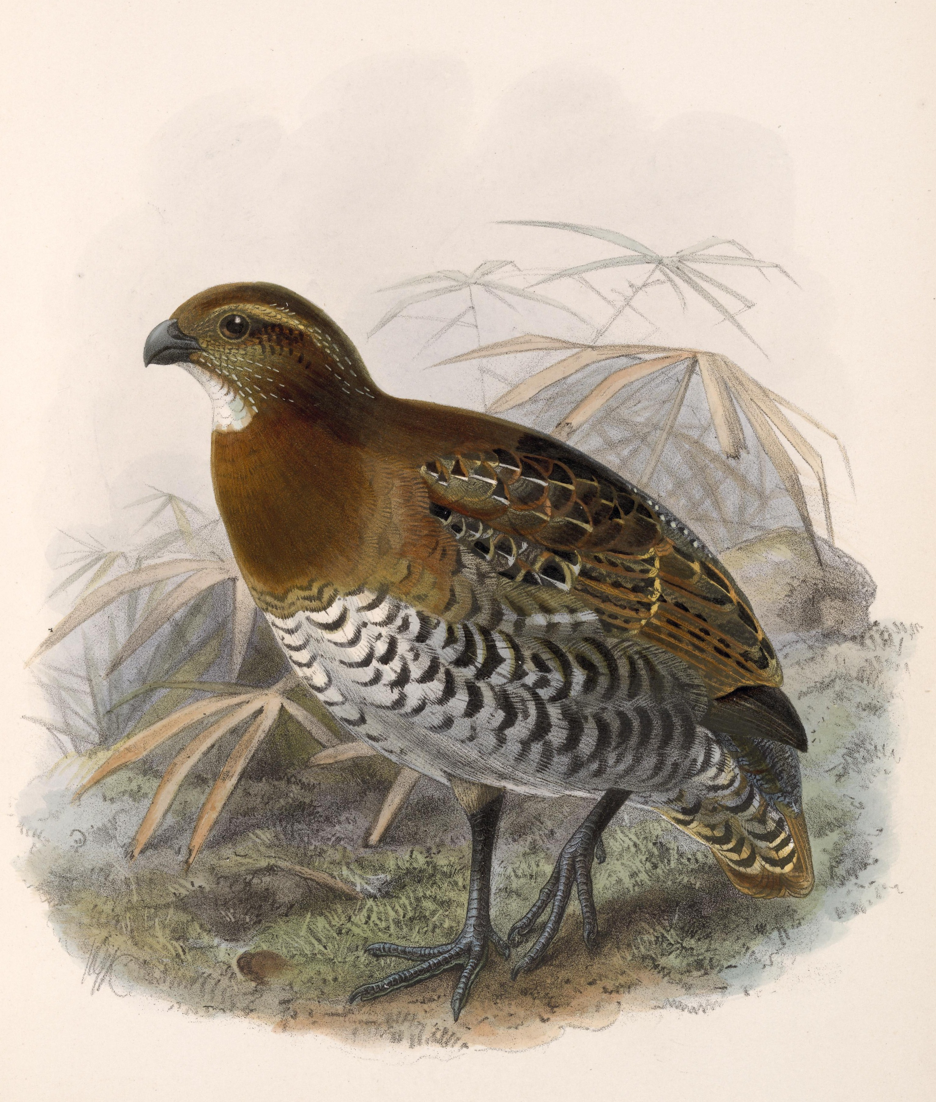 « Odontophorus cinctus » = Rhynchortyx cinctus (Tawny-faced Quail) - female